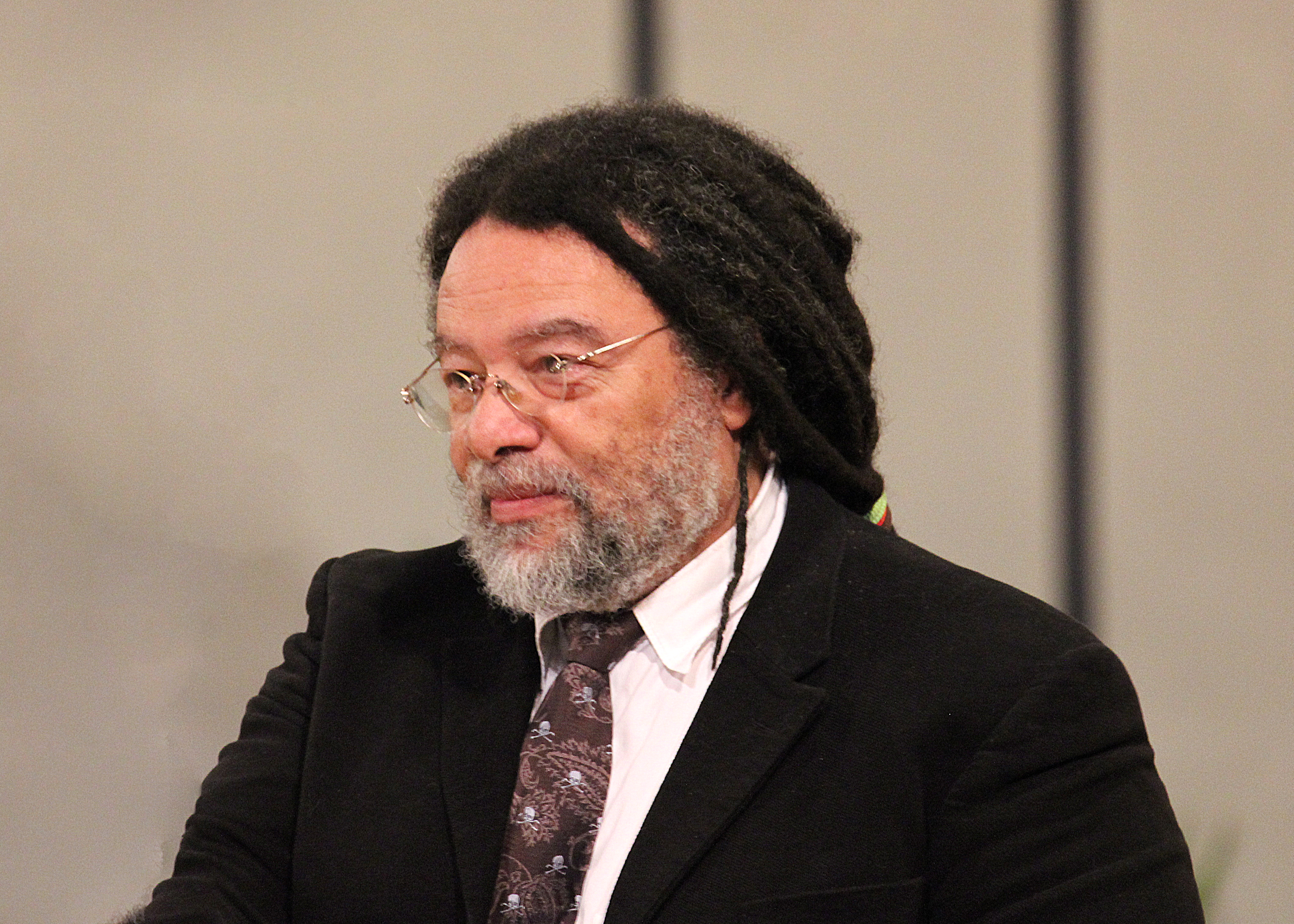 Paul Gilroy at Ludwig Maximilian University of Munich